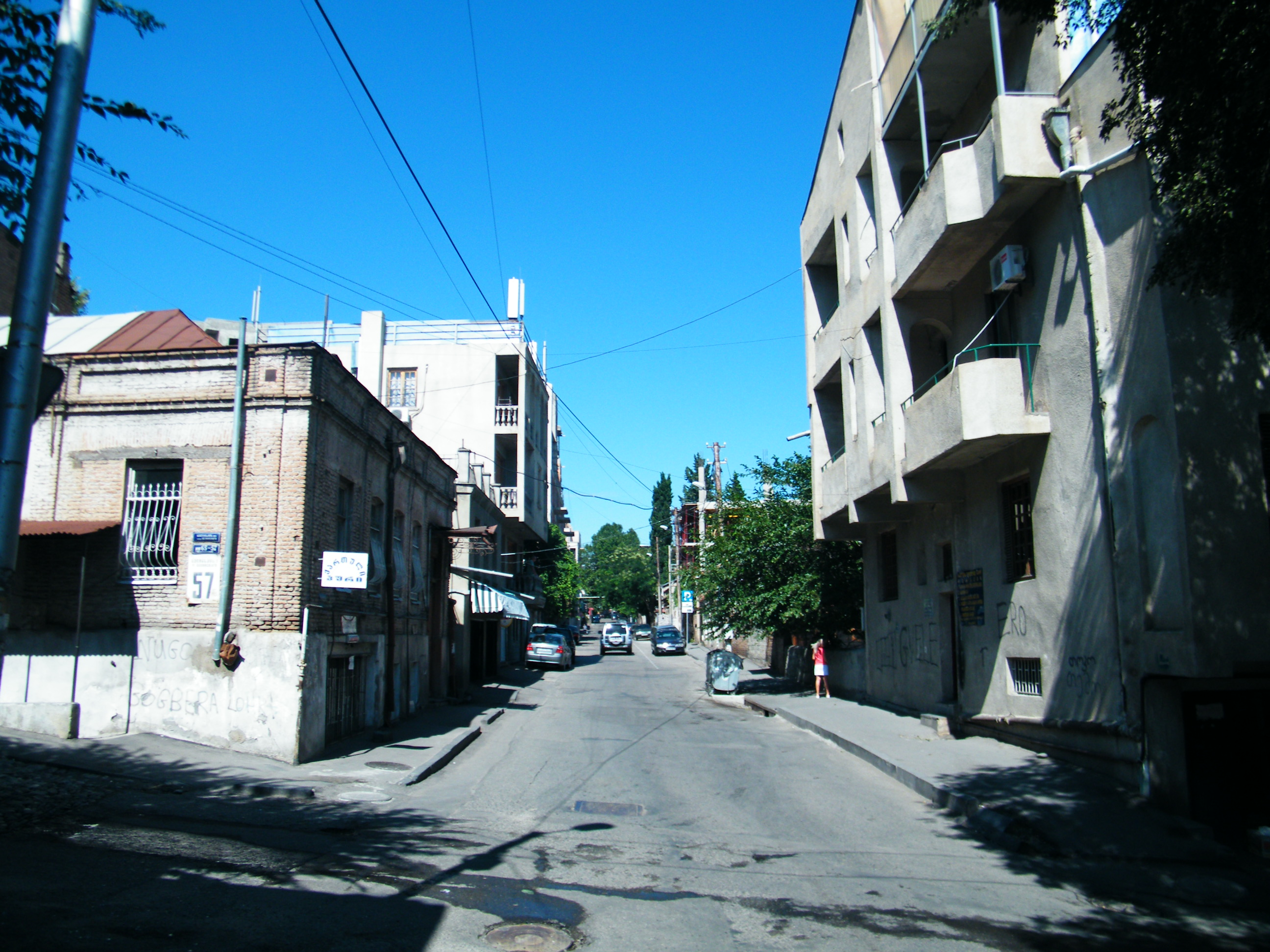 Gogebashvili street, Tbilisi